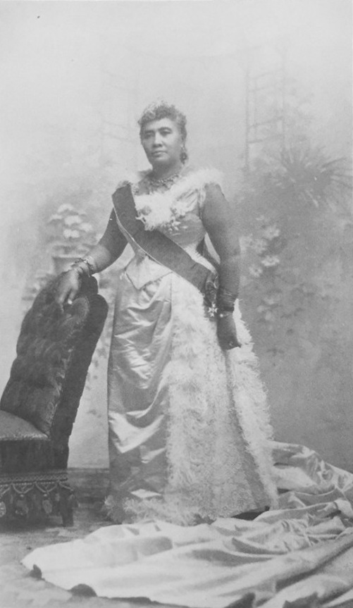 Liliuokalani of Hawaii. Frontispiece photograph from Hawaii's Story by Hawaii's Queen, Liliuokalani (1898)